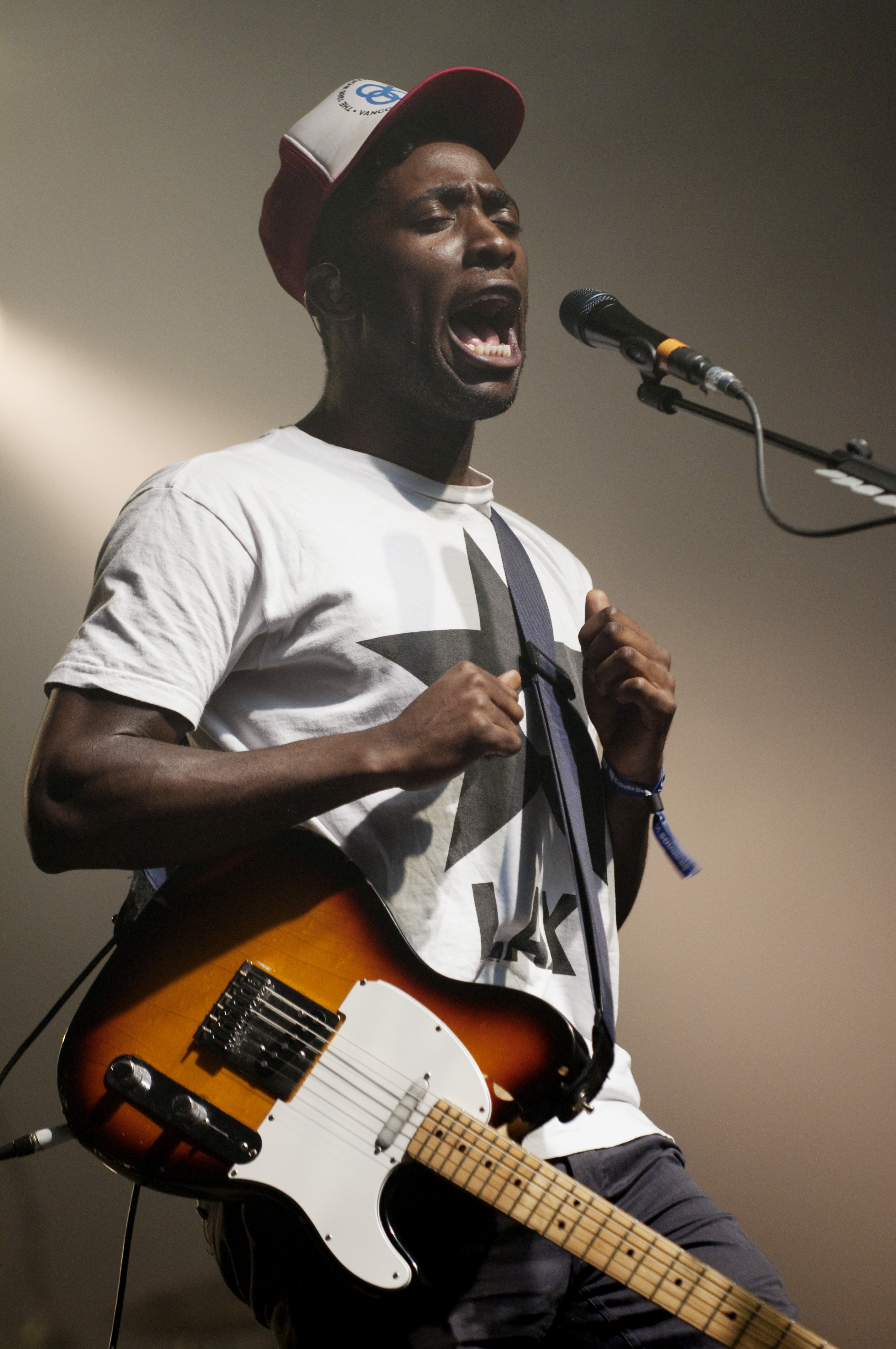 Bloc Party